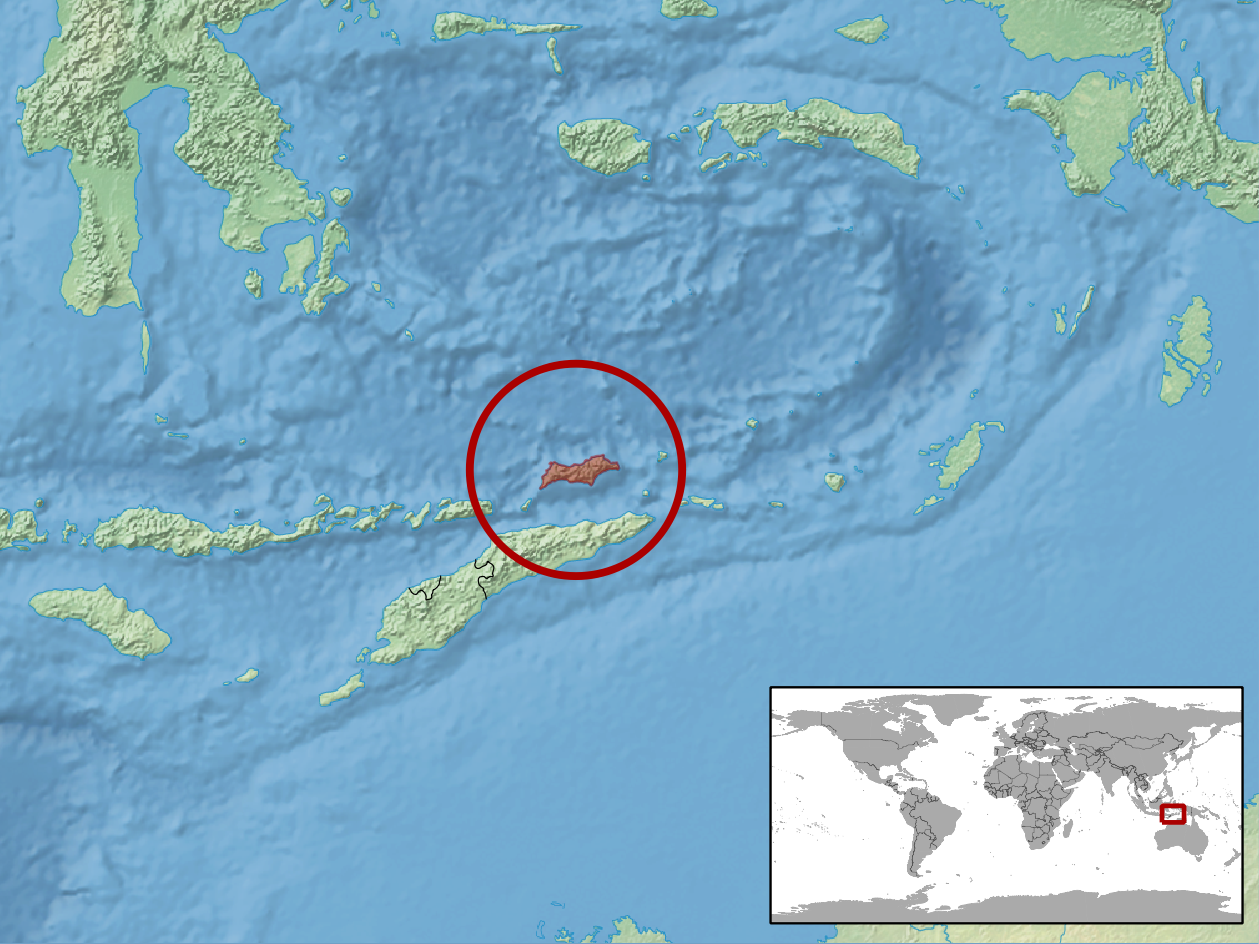 geographic distribution of Cyrtodactylus wetariensis (Native: Indonesia (Maluku))